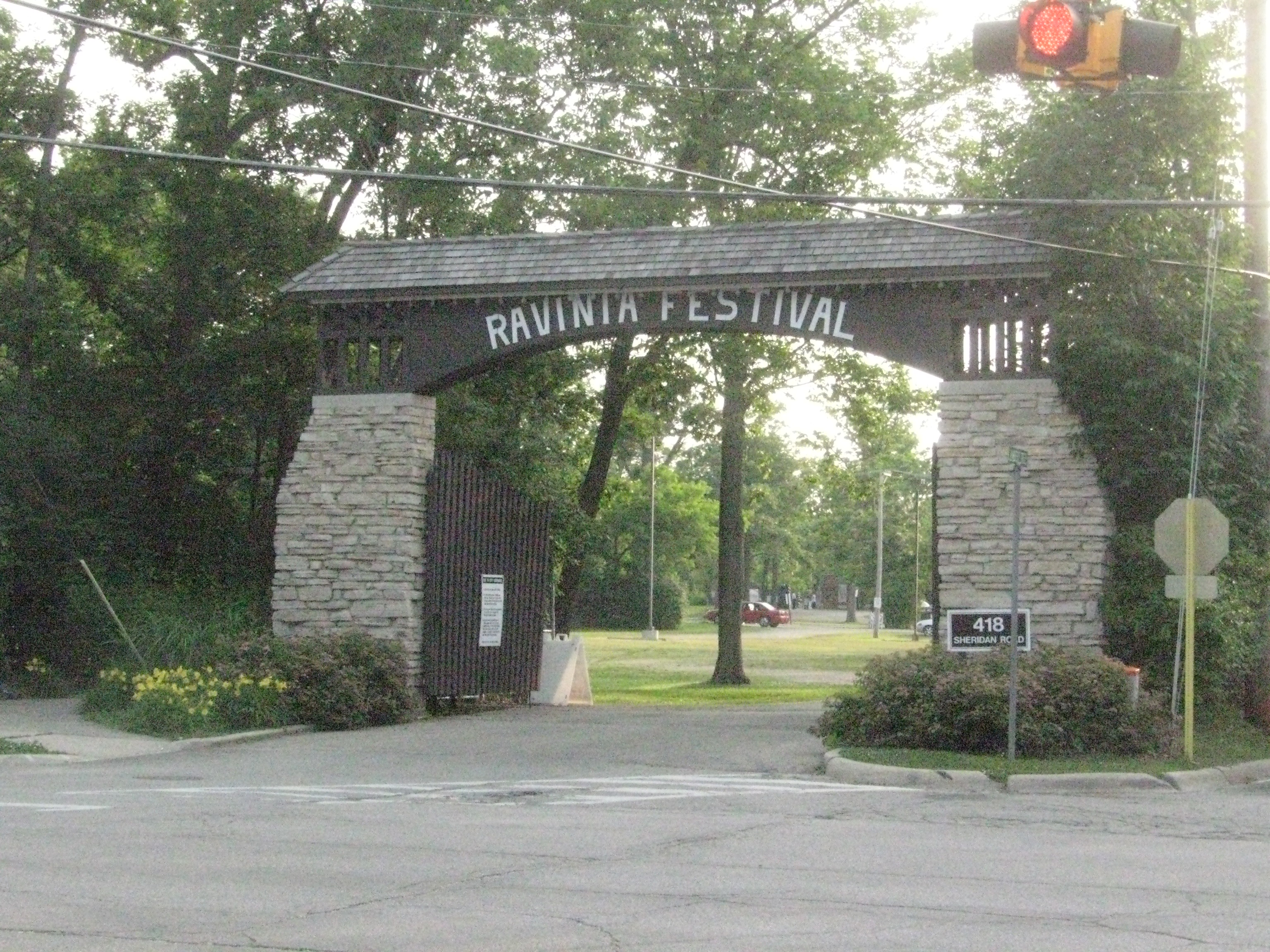 Ravinia Festival